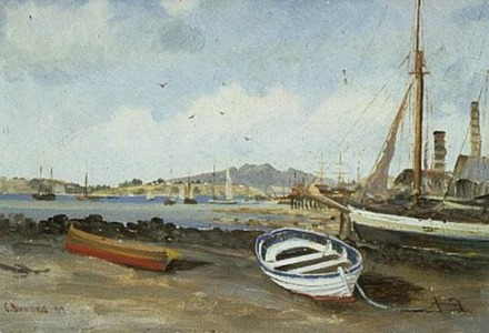 Mechanics Bay in Auckland City, New Zealand. Looking north/north-east to Rangitoto Island. Extended information on origin webpage reads: Artist: Charles Blomfield Title: Auckland Harbour from Mechanics Bay Production Date: 1899 Medium: oil on canvas Size (hxw): 200 x 298 mm Inscription: C. Blomfield '99 (l.l.) Other ID: 0/40A Credit Line: Auckland Art Gallery Toi o Tāmaki, purchased 1930 Accession No: 1930/22/1 Copyright: No known copyright restrictions